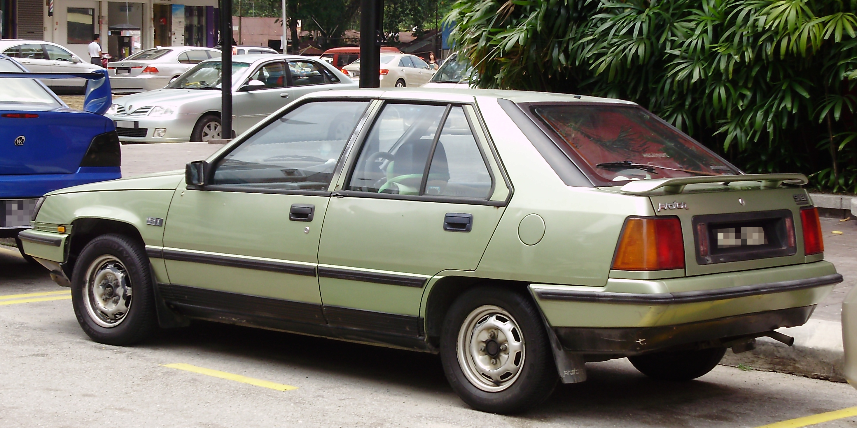 Rear quarter view of a first generation, first facelift Proton Saga Aeroback (automatic) in Pudu, Kuala Lumpur, Malaysia.